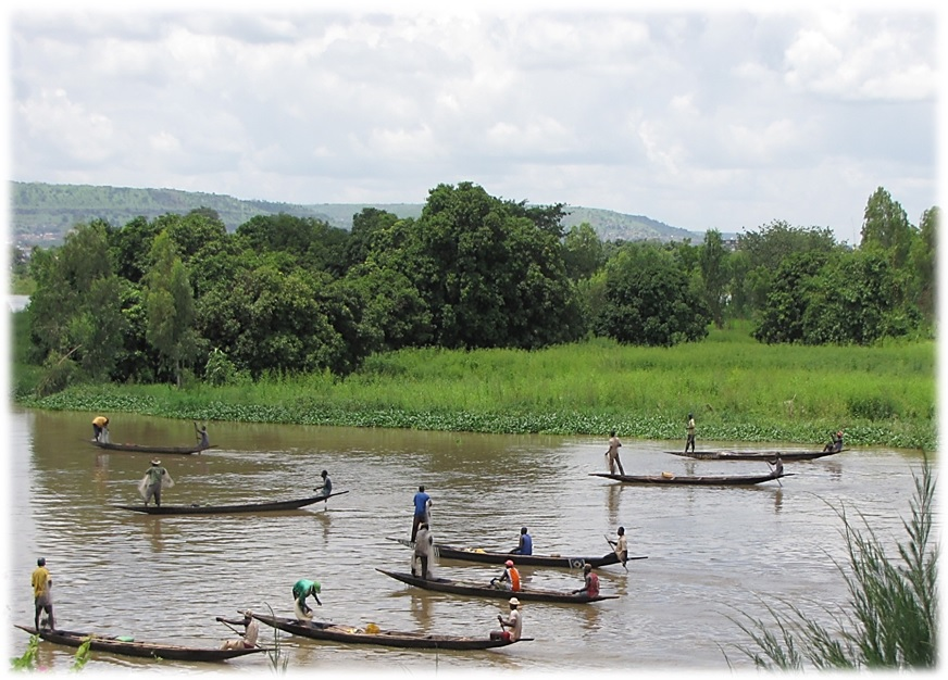 Fishermen quickly gather and position as a school of fish arrives from upriver. These men are from the families that make up one extended traditional fishing community on the Niger River, and they may not look like it, but they all have cellphones and are only a few minutes scooter ride from downtown. This is an image of food from Mali